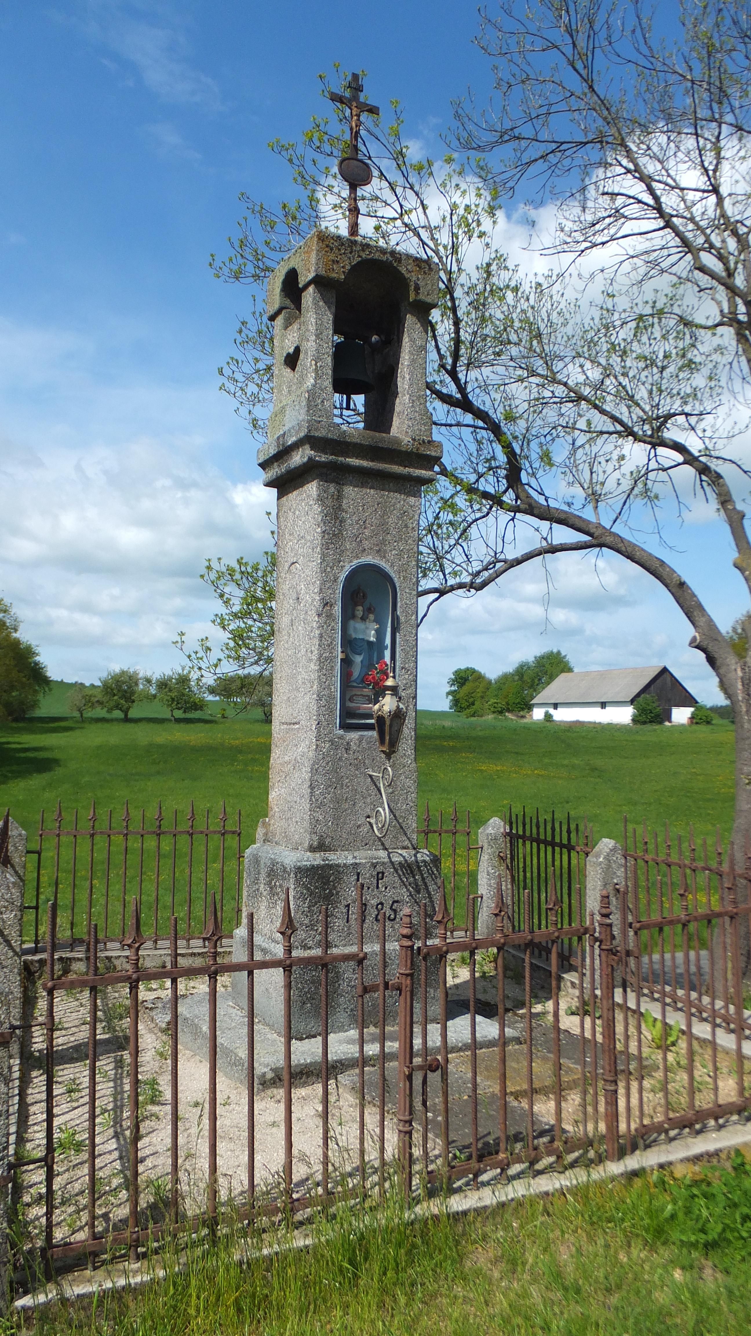 The bell pillar in Mezné